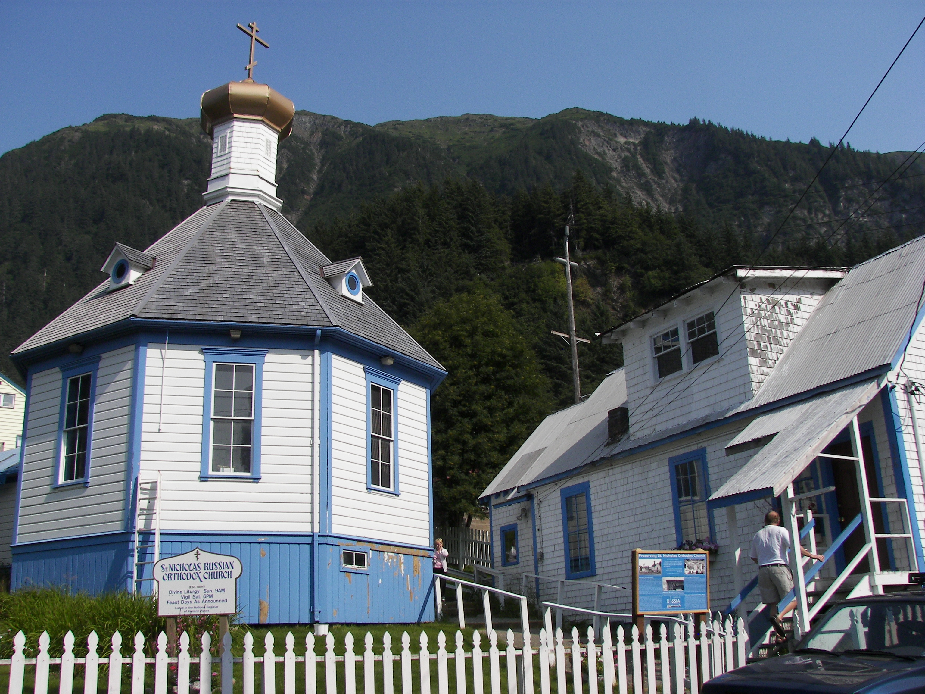 Saint Nicholas Russian Orthodox Church on Fifth Street in downtown Juneau, Alaska. The church is on the National Register of Historic Places in Alaska.